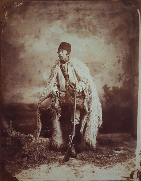 Theodor Glatz: self-portrait as Transylvanian pheasant hunter. Library of the University of Cluj